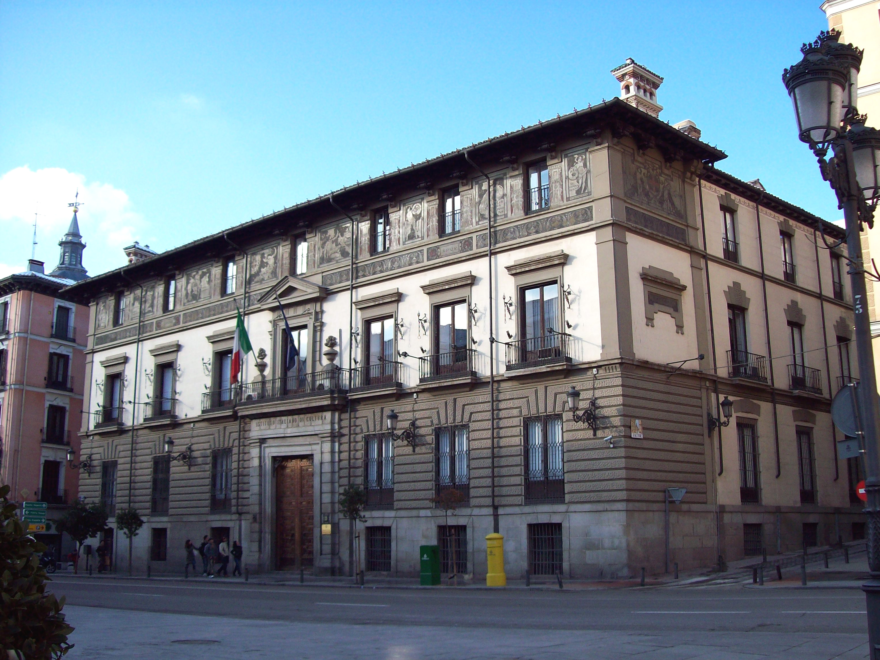 Façade of Palacio de Abrantes (home of the Italian Cultural Institute), at 86 Calle Mayor (street) in Madrid (Spain).